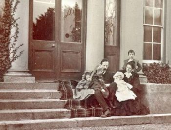 ROBERT WILLIAM D'ESCOURT Ashe with his wife, Mary, and children. It is not clear when and where this picture was taken.